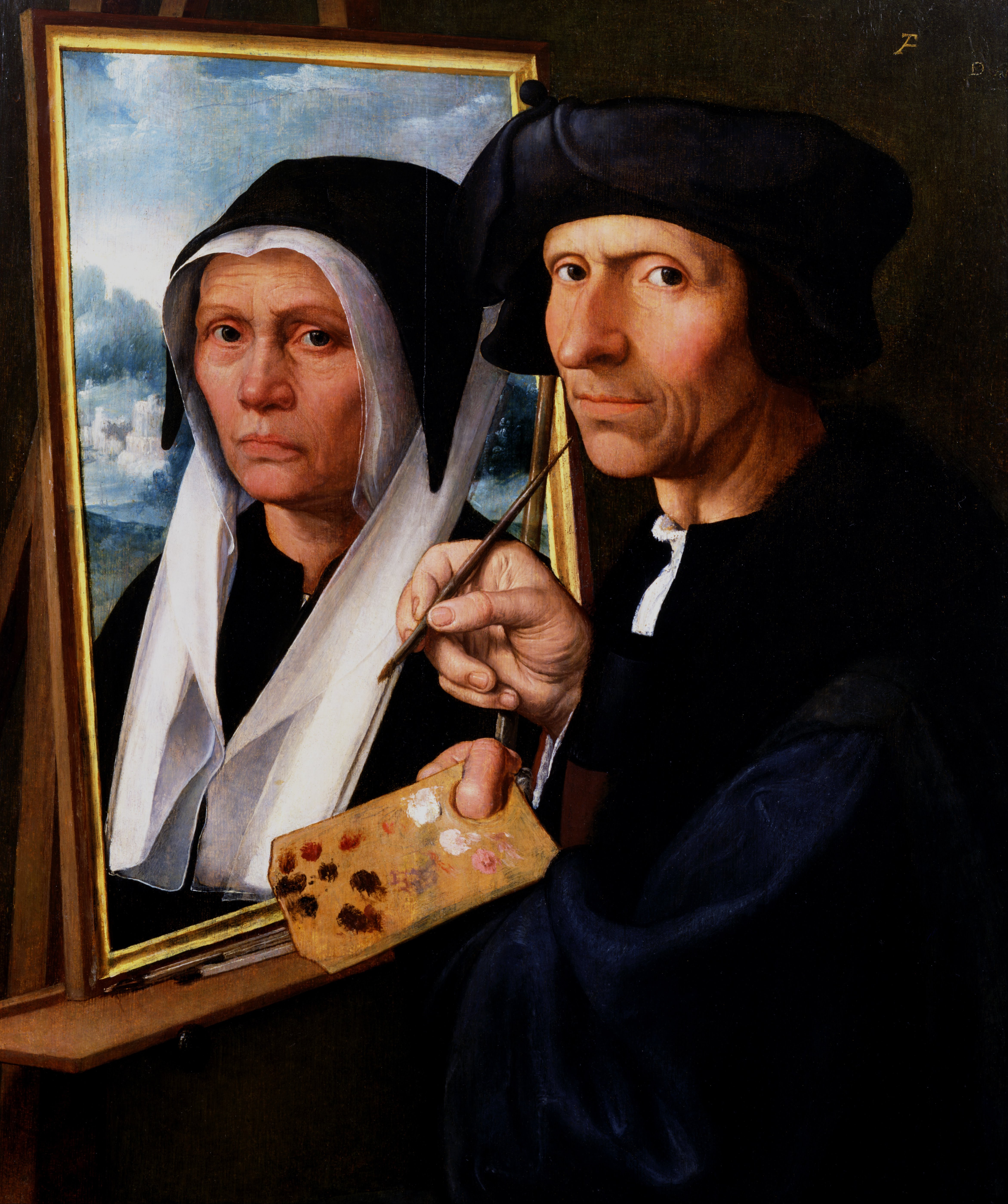 Remarkably inventive, this unusual double portrait plays with sophisticated concepts of absence and presence and of the role of the viewer. In this painting Dirck Jacobsz. depicts his parents. His father Jacob Cornelisz. van Oostsanen, who was also an artist, is shown painting a portrait of Jacobsz.'s mother, Anna. Though Oostsanen had died in 1533, his wife lived until about 1550, the same time this panel was painted. Traditionally, portraits were seen as a way of making the absent present, if only in effigy. If Jacobsz. did paint this panel after his mother's death, he may allude to this function of portraiture by depicting his mother as a portrait within a portrait—brought "to life" simultaneously by her painter husband and by her painter son. Jacobsz.'s father, too, is "present" through his likeness preserved in paint. The ultimate function of the double portrait was likely as a memorial installed above the couples' tomb in a church. The format of the painting ingeniously incorporates the viewer in its fiction. The painter, Oostsaanen, looks out, presumably at his subject—his wife, Anna—whose likeness he paints. The likeness of Anna also looks out at the viewer. Dirck Jacobsz. himself would have had the most complicated relationship with the painting, standing before it as painter, viewer, and object of his parents' gaze. Because Jacobsz. based the head and costume of his father directly on a self-portrait the older artist had painted about twenty years earlier (now in the Rijksmuseum, Amsterdam), Toledo's painting had been attributed to Oostsanen for many years. Scholarly study, conservation work, and technical examination of the painting in the 1980s led to its reattribution to Oostsanen's talented son.